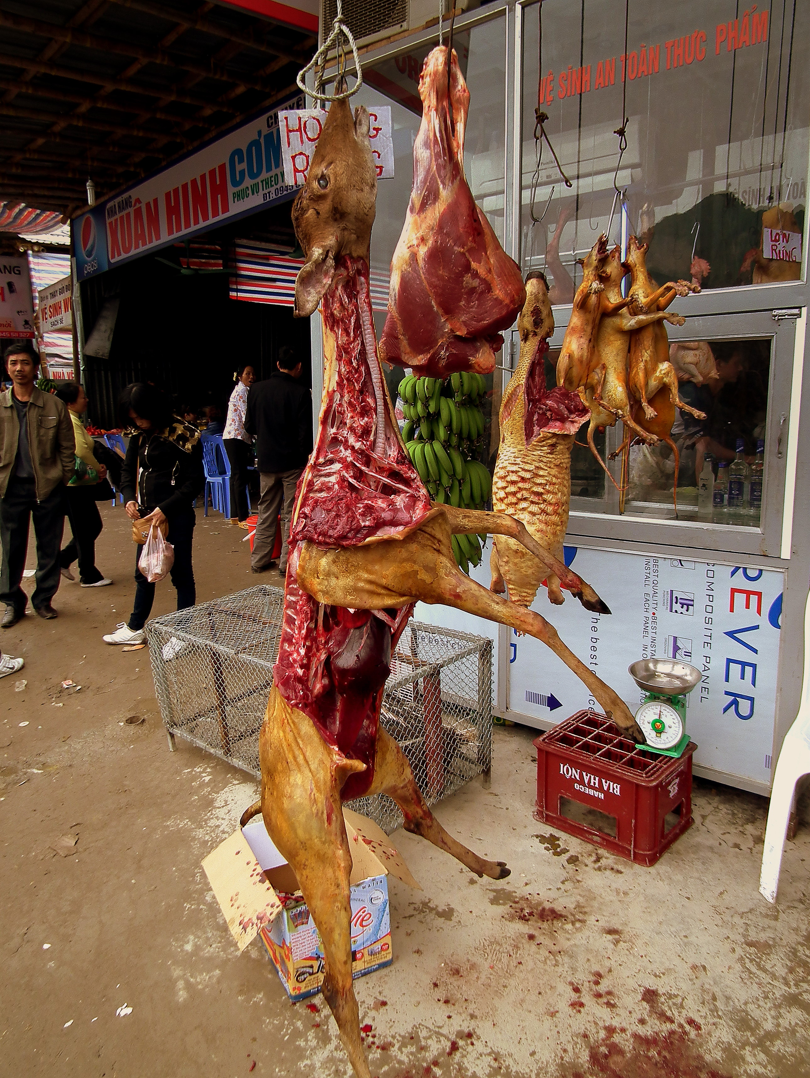 BUTCHERY OF ANIMALS(MAINLY DEER AND PORCUPINE)BUT ALSO DOGS,TAKES PLACE OUTSIDE THE RESTAURANTS HERE,THE ANIMALS EXPERTLY CUT UP FOR CUSTOMERS TO SEE,ITS THE WAY ITS ALWAYS BEEN DONE,ANIMALS ARE ALSO TIED UP ALIVE OUTSIDE RESTAURANTS,SO IF YOU VISIT,YOU HAVE BEEN WARNED .